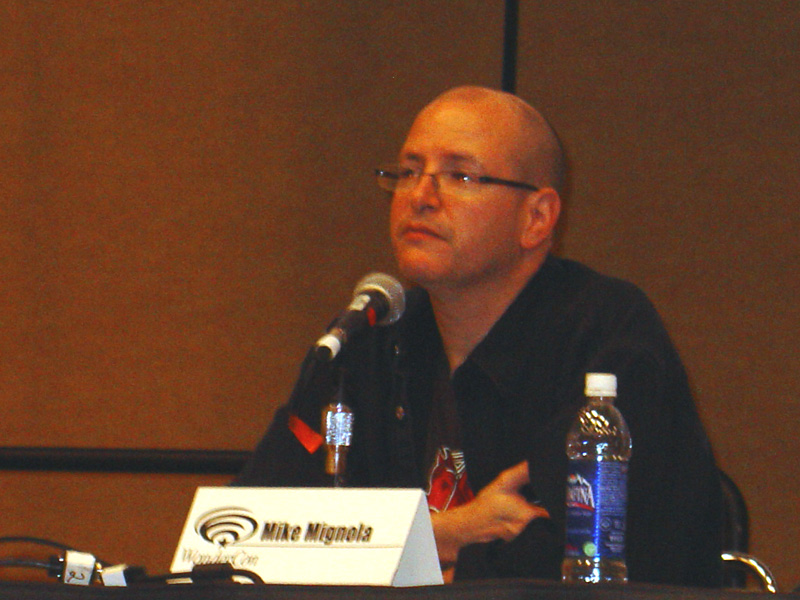 Mike Mignola on a panel at the WonderCon, 2006